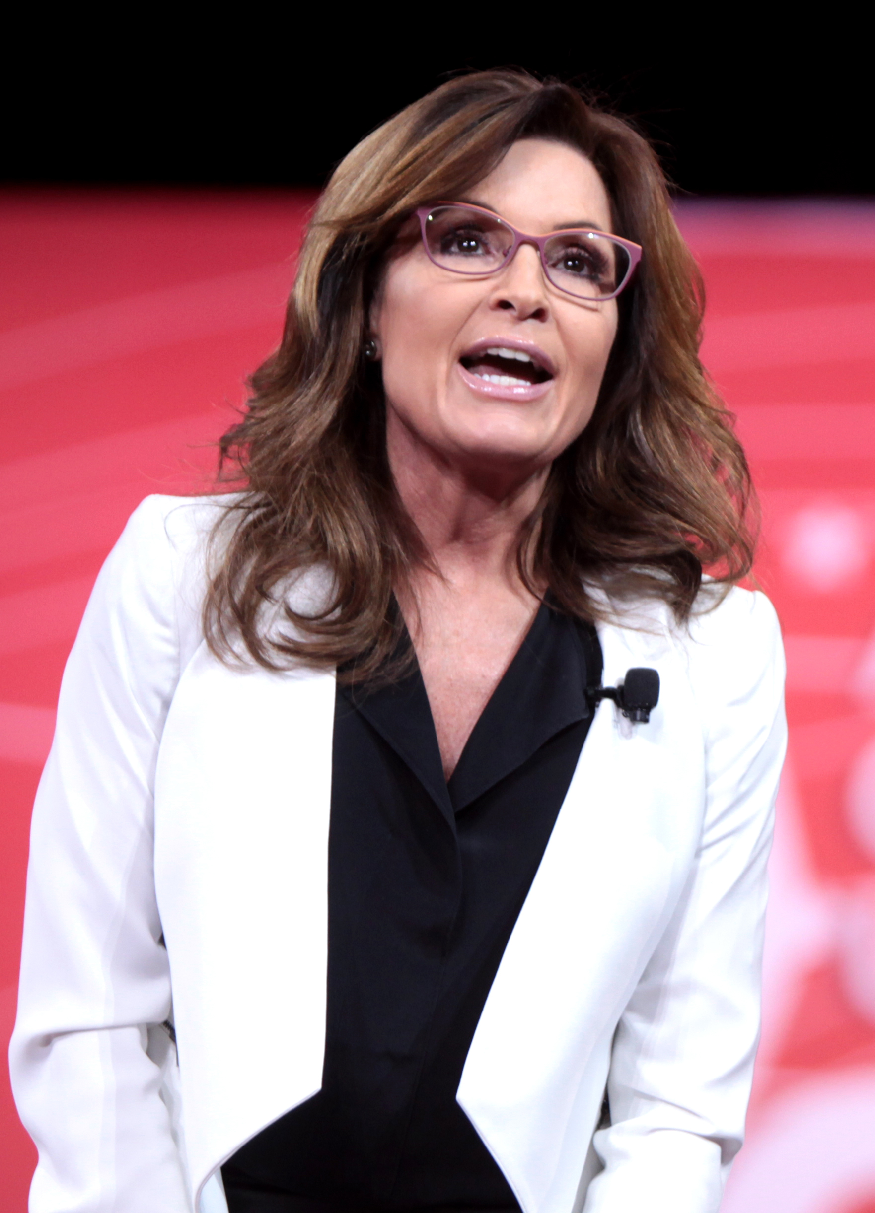 Sarah Palin speaking at CPAC 2015 in Washington, DC.